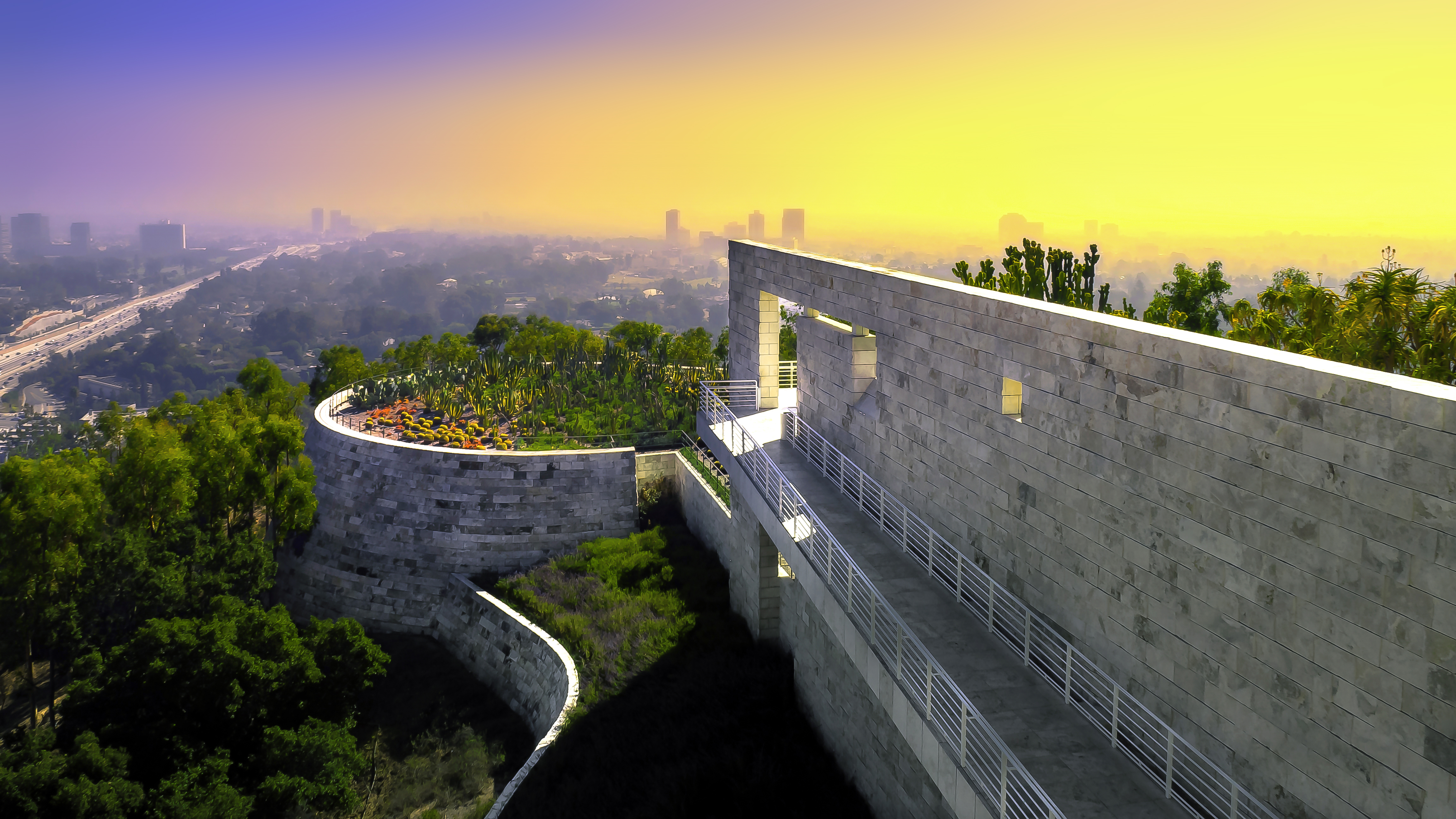 This is the Cactus Garden on top of one of the buildings at the Getty Center. The stone wall & walkway point you towards Westwood & UCLA down the 405 and out to West Los Angeles, California.